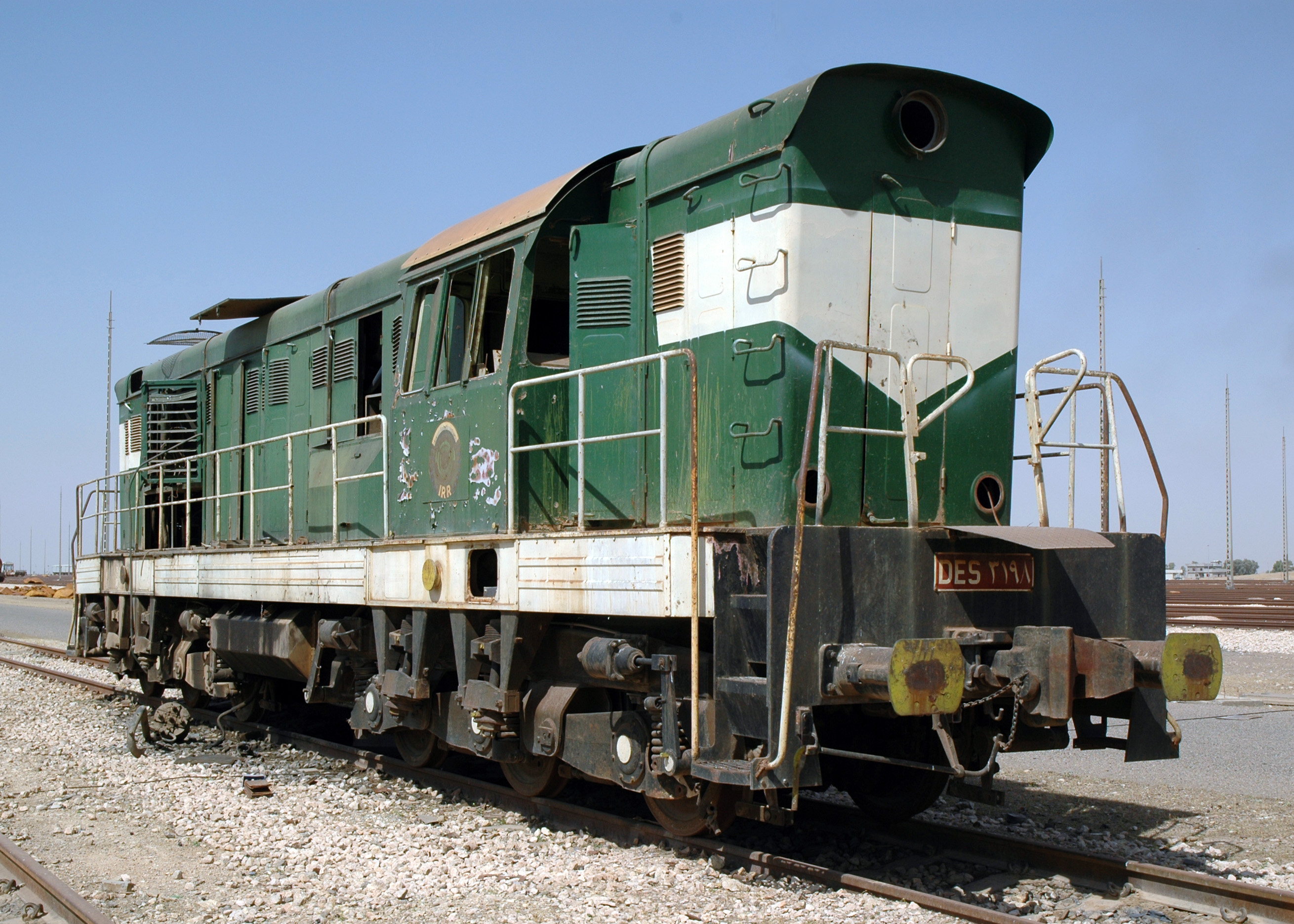 (Released to Public) US Army Corps of Engineers (USACE) photograph a diesel-electric locomotive at the Kirkuk rail road Storage and Maintanence Facility. This facility will perform heavy maintanence on diesel locomotives like the one pictured here.